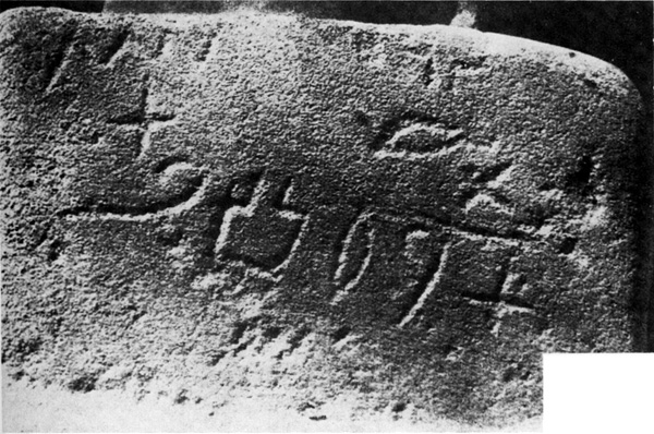 Specimen of the only certainly deciphered word in the Proto-Sinaitic script, b‘lt.